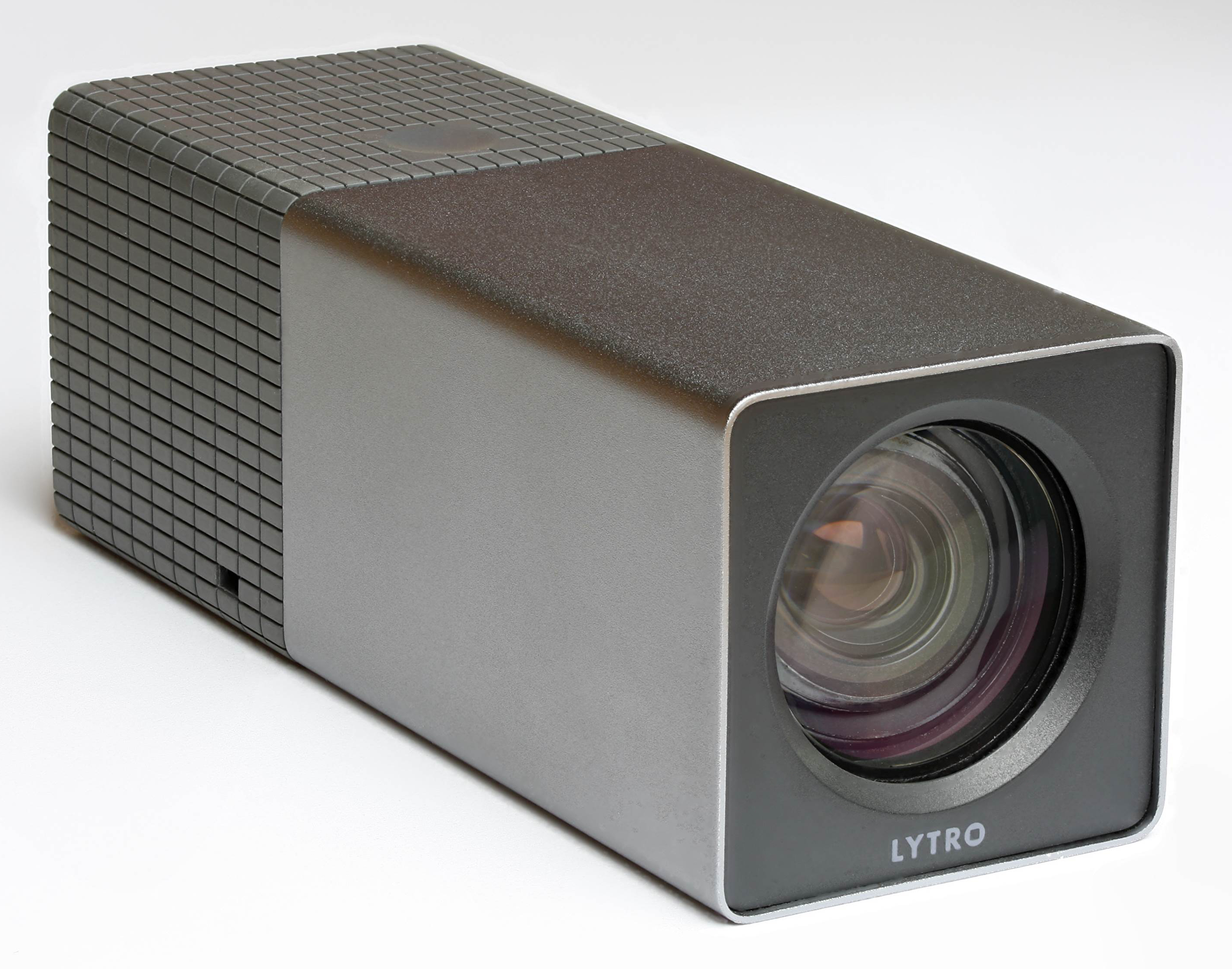 The front of a plenoptic camera/light-field camera by Lytro Inc.